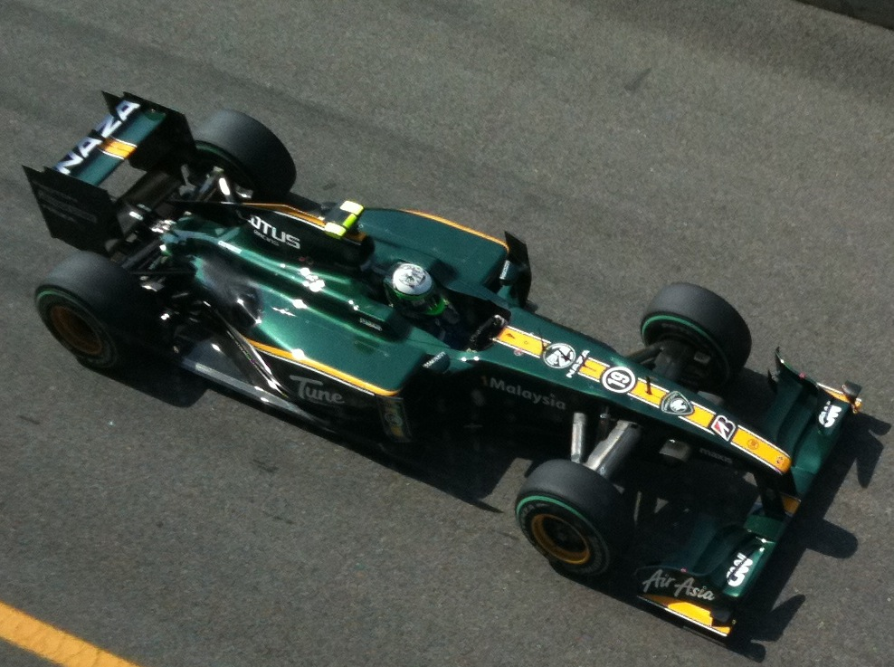 Heikki Kovalainen driving for Lotus Racing at the 2010 Italian Grand Prix.